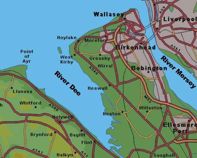 Constructed from public domain data for digital map of the world